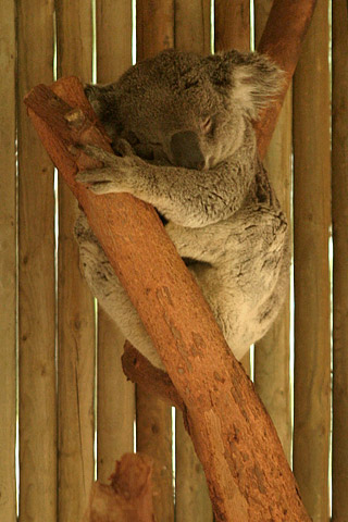 Koala bear